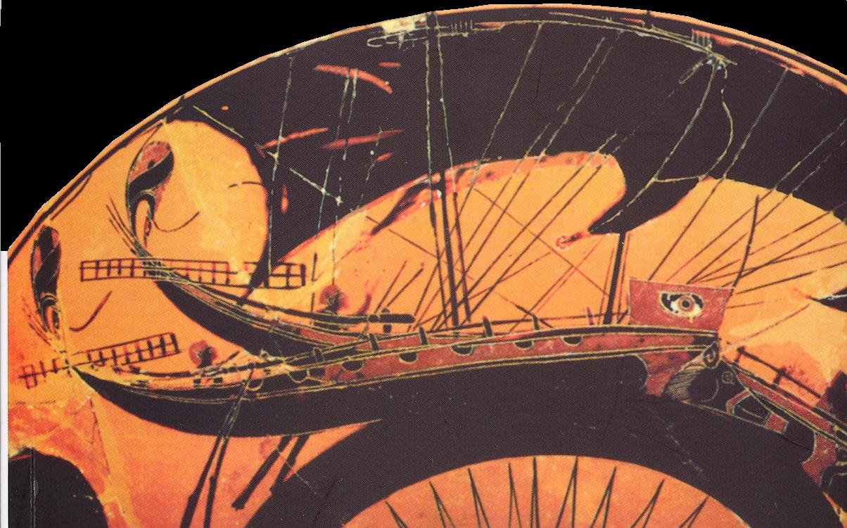 an ancient greek ship. On the bow, the apotropaic ophthalmos (eye) and the ram (shaped as a wild boar)